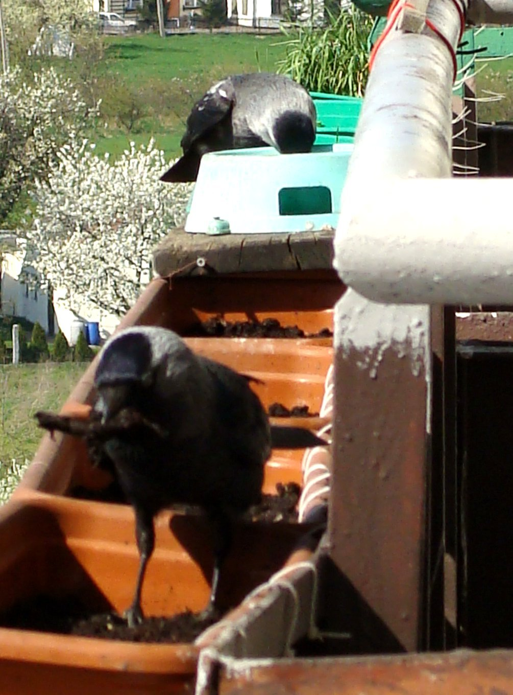 Watering trough